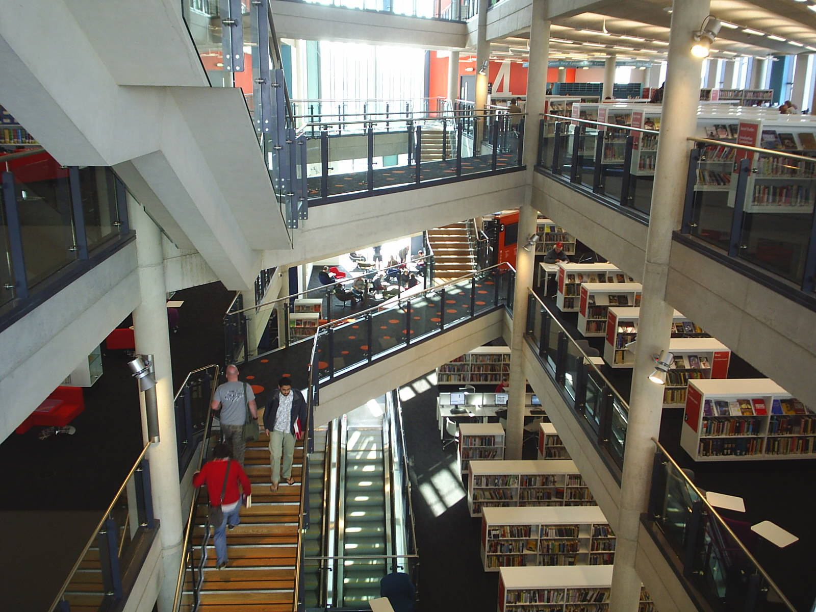 An interior view of Cardif Central Library